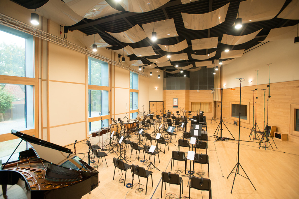 The Galaxy Hall at the Glaxy Studios in Mol, Belgium